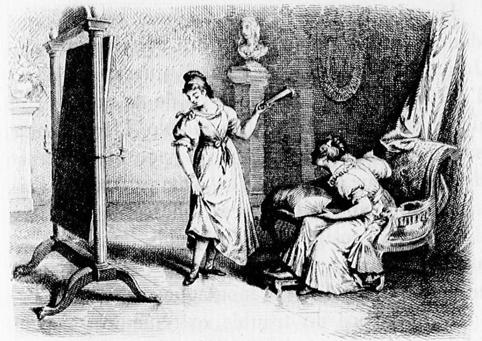 Illustration of The Red and the Black (1830) by Stendhal (1783-1842)